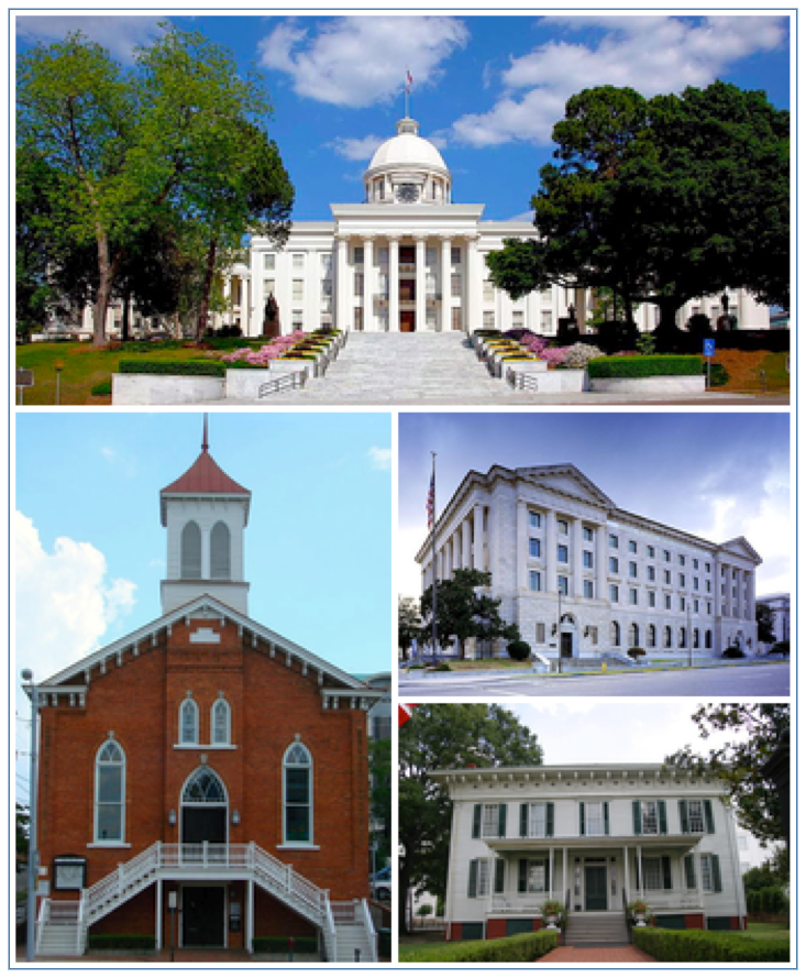 city here montgomery alabama